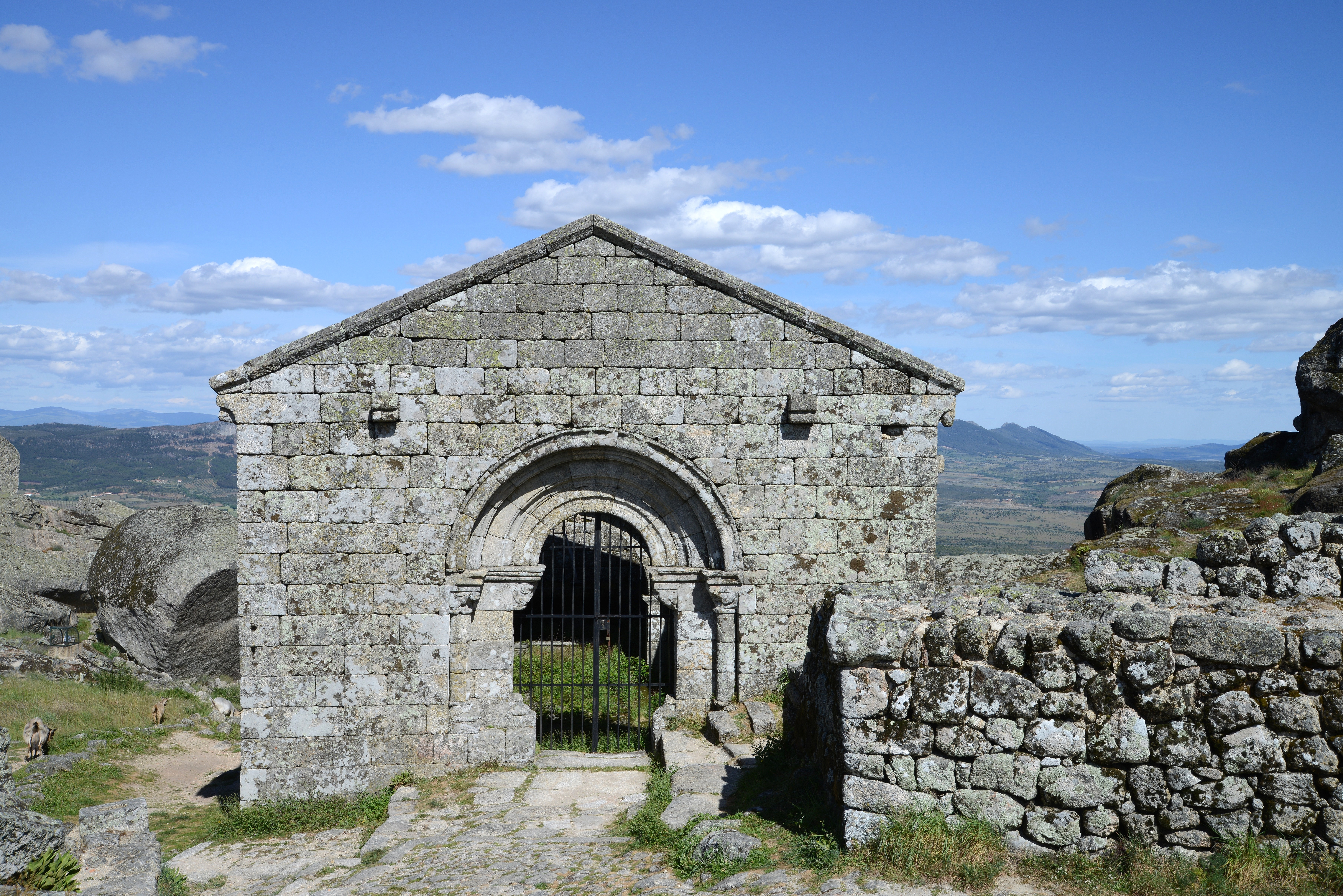 Ruins of the Church of São Miguel. Castle of Monsanto, Portugal